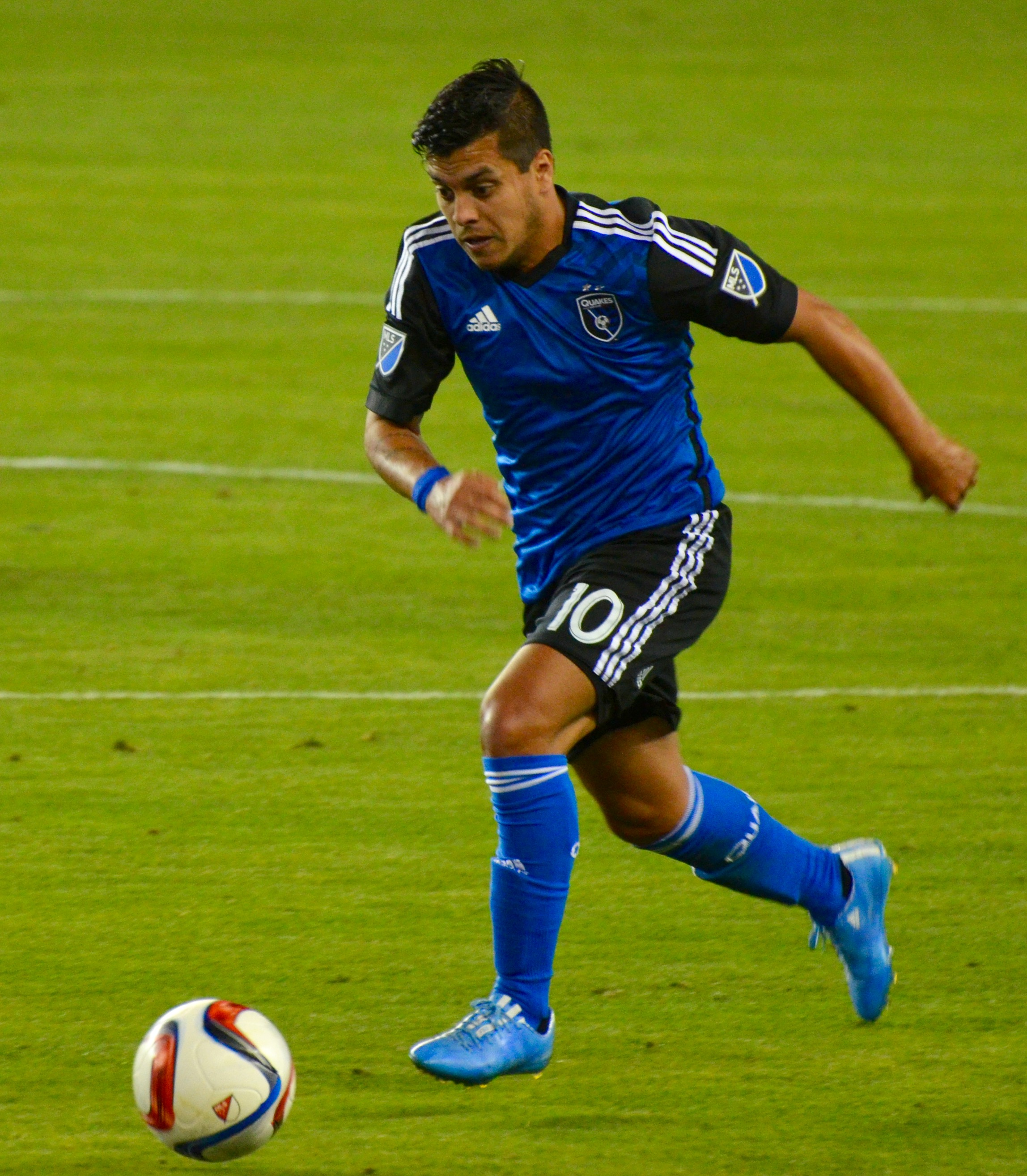 Matías Pérez García playing for the San Jose Earthquakes vs the Vancouver Whitecaps at Avaya Stadium on 11 April 2015